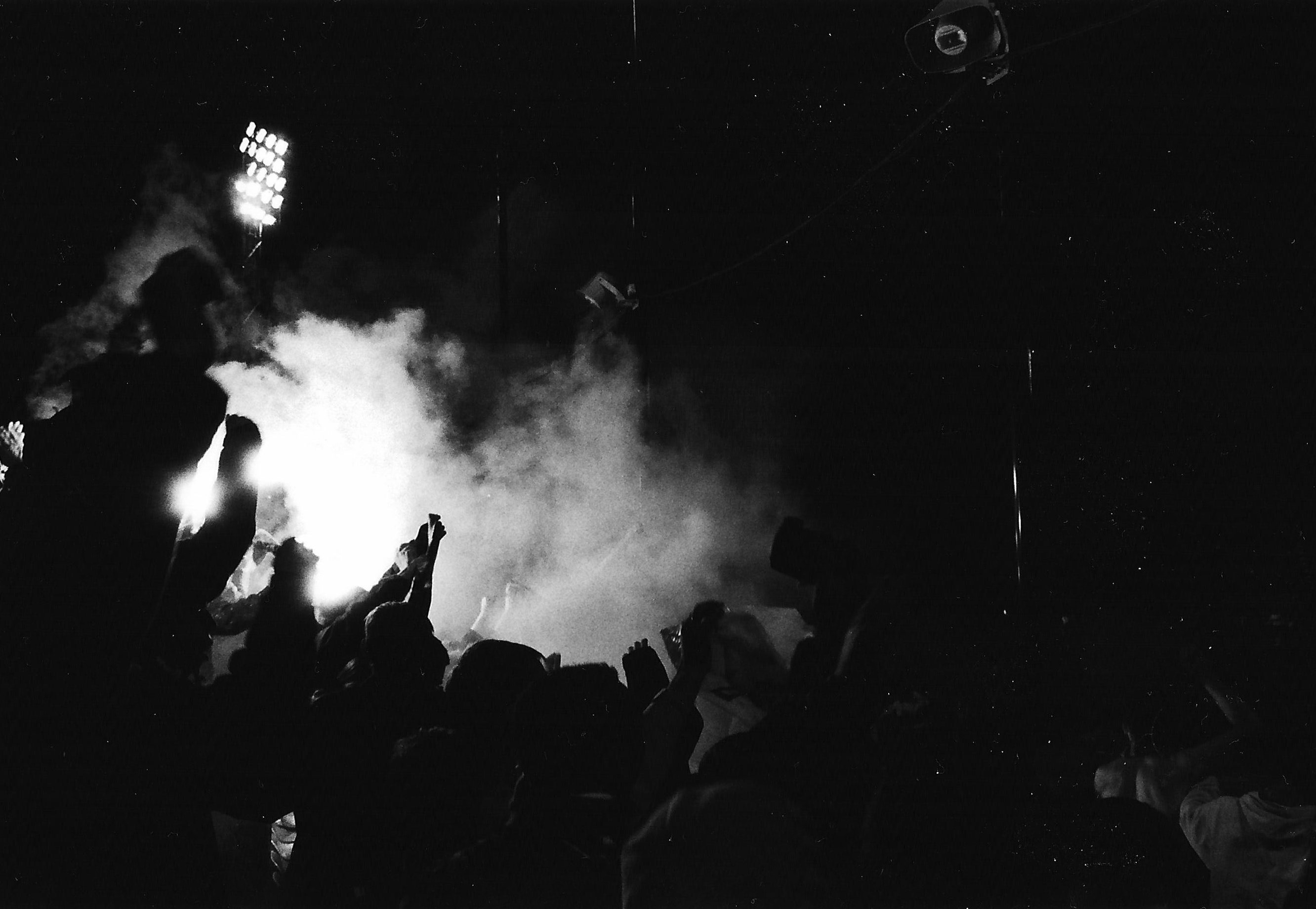 SM Caen supporters after FC Rouen - SM Caen.